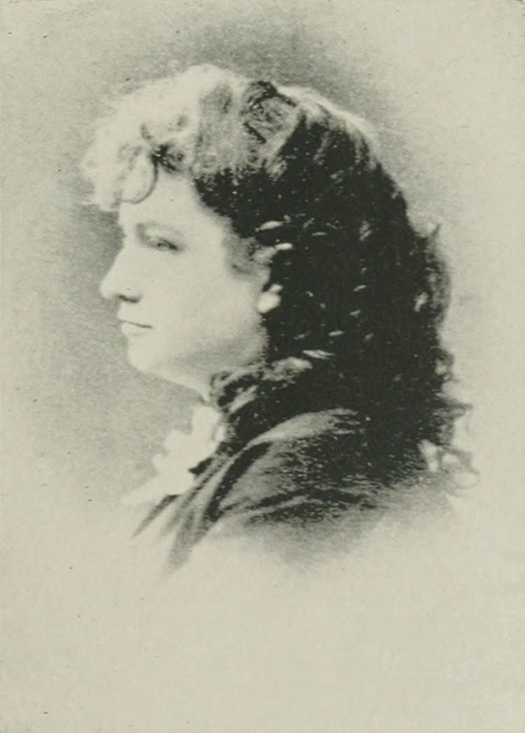 Depicted person: Nellie Marie Burns – American poet